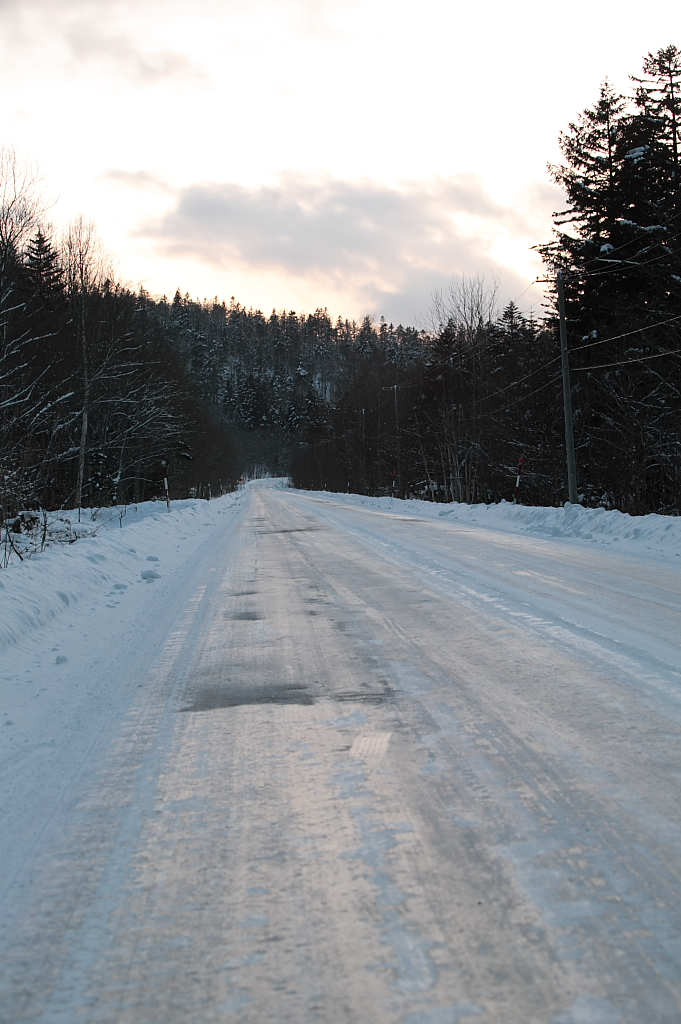 Icy road in Minami-furano ( 南富良野町 ) Hokkaidō Japan.